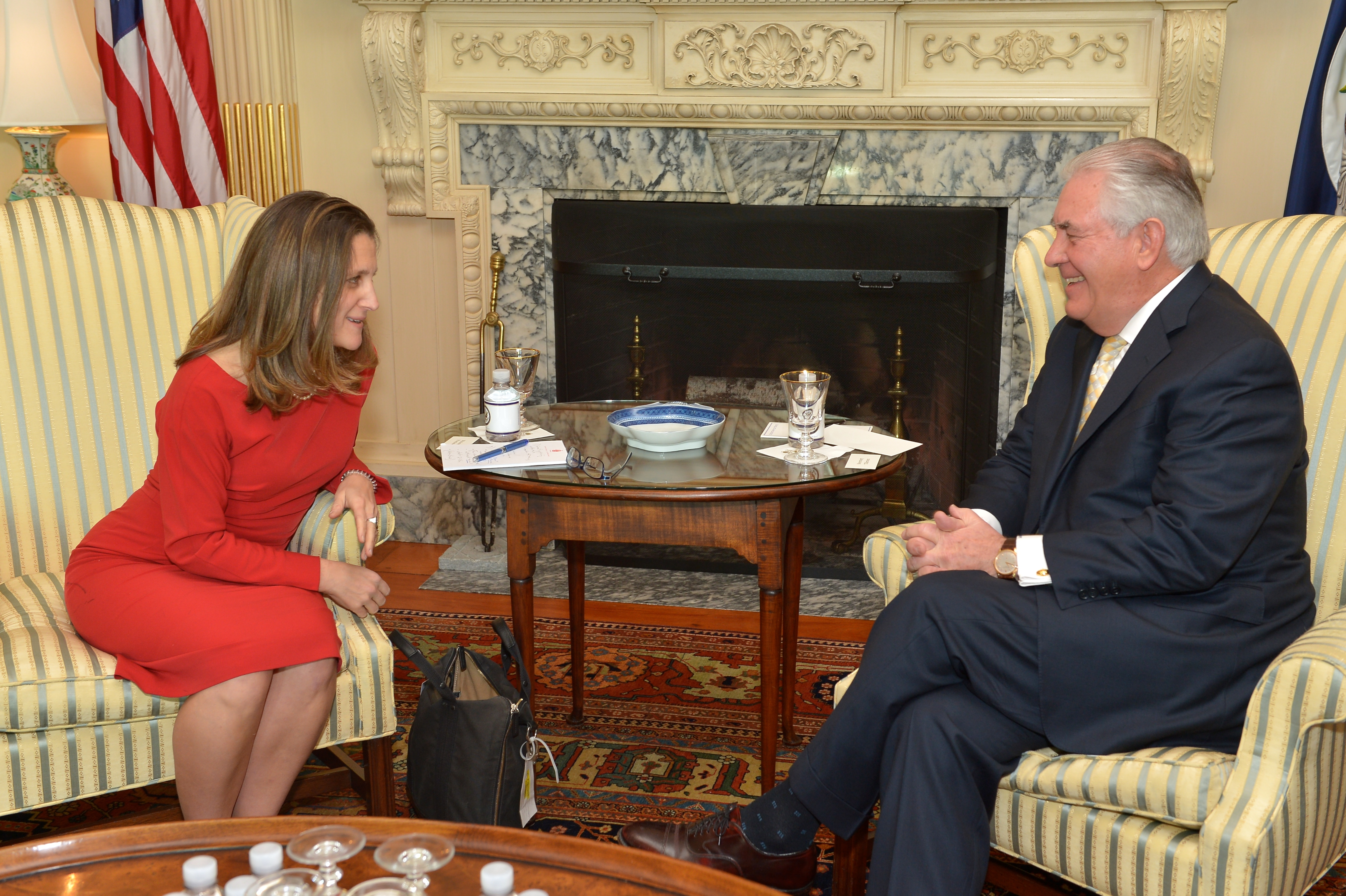 U.S. Secretary of State Rex Tillerson meets with Canadian Foreign Minister Chrystia Freeland at the U.S. Department of State in Washington, D.C., on February 8, 2017. [State Department Photo/ Public Domain]